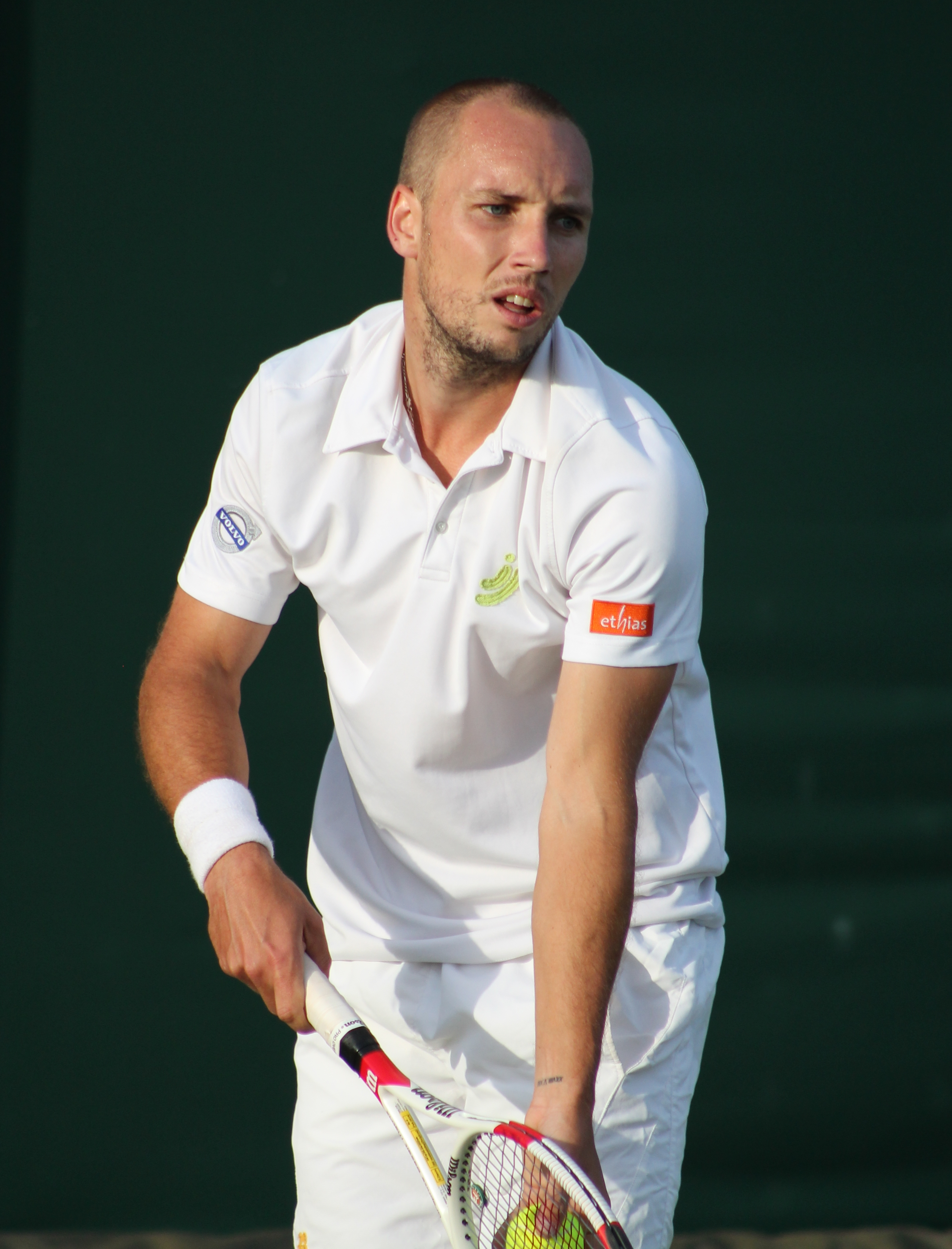 Darcis WMQ14 (19)